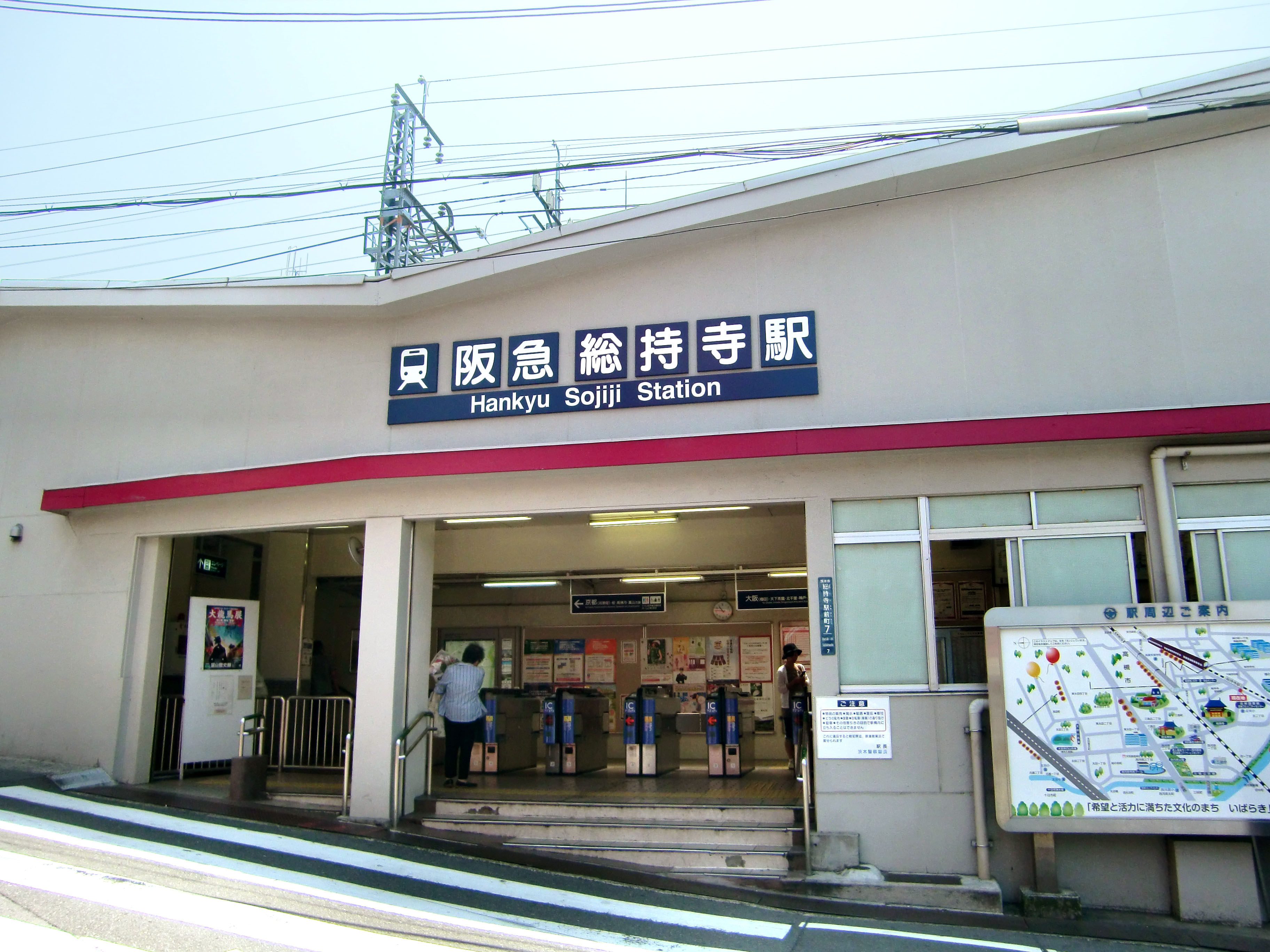 Hankyu Railway Sojiji Station, 7-3 Sojiji-Ekimaecho, Ibaraki City, Osaka, Japan